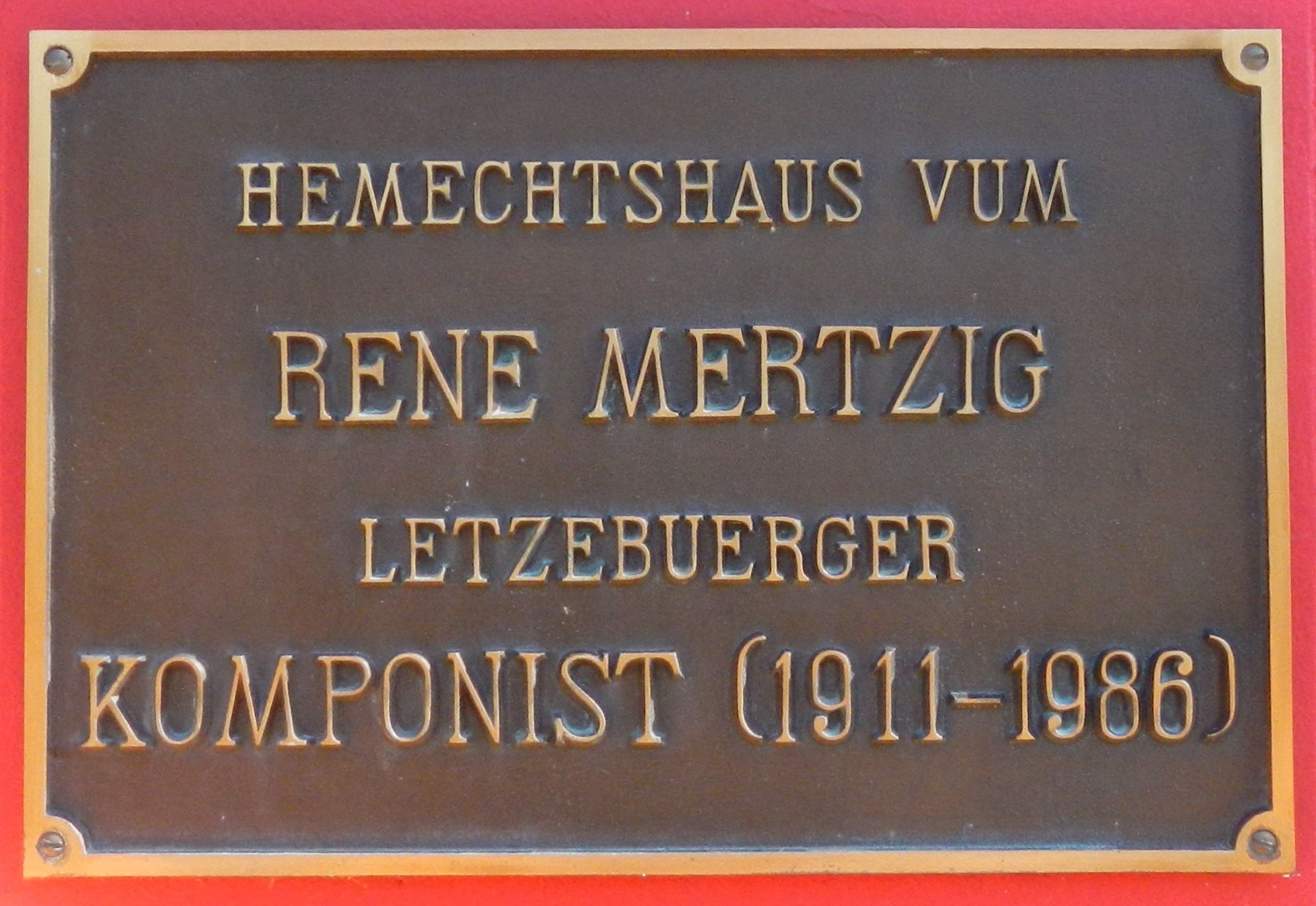 Commemorative plaque on birth house of Luxembourg composer René Mertzig (1911-1986) located at 4, rue de Bissen, Colmar-Berg, Luxembourg.